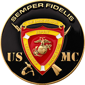 The United States Marine Corps' "The Basic School". Image from Northwest Territorial Mint Challenge Coin.